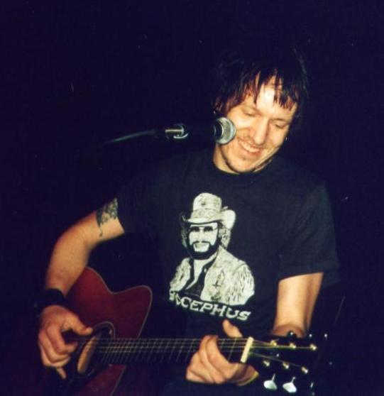 Elliott Smith performing at the Henry Fonda Theater in Los Angeles, CA on 2-1-2003. Picture taken by user llaurens of the message board community.